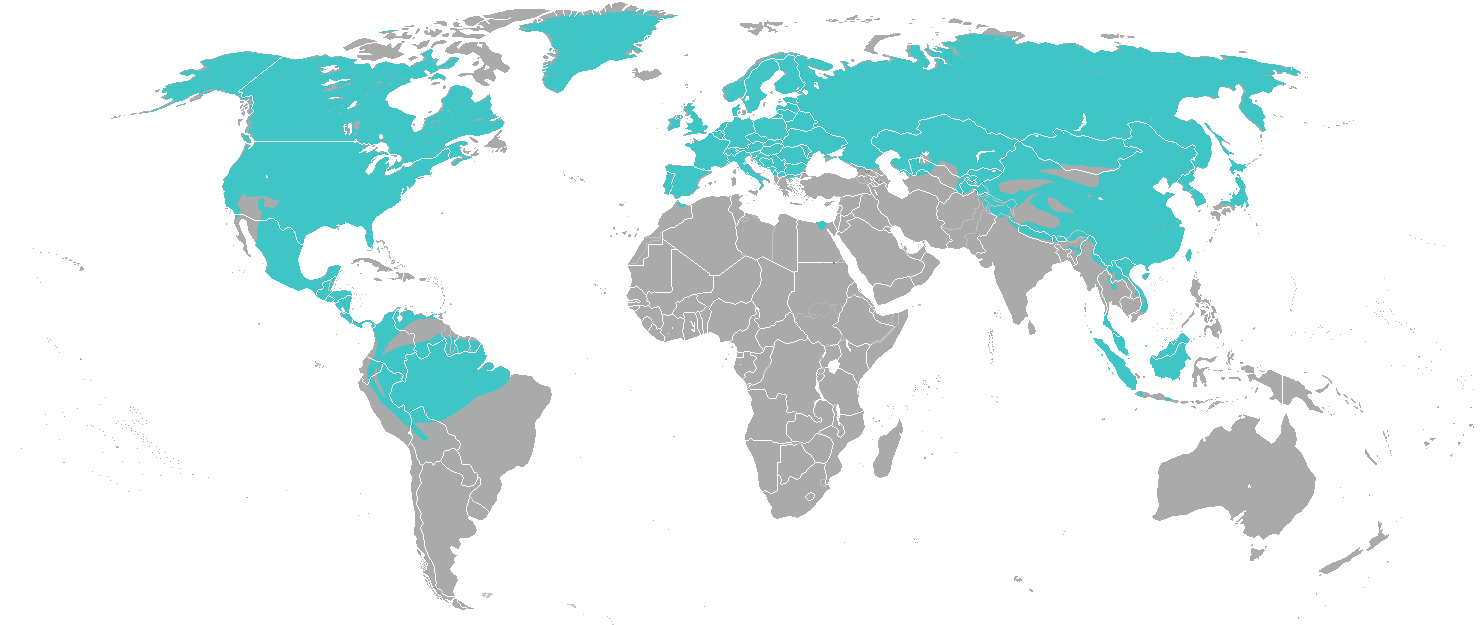 Derived from specific maps.